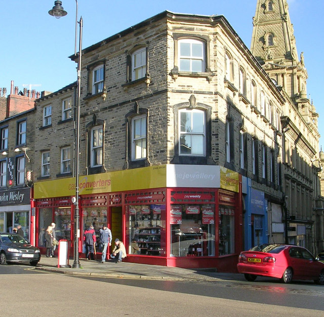 Cash Converters - Waterhouse Street